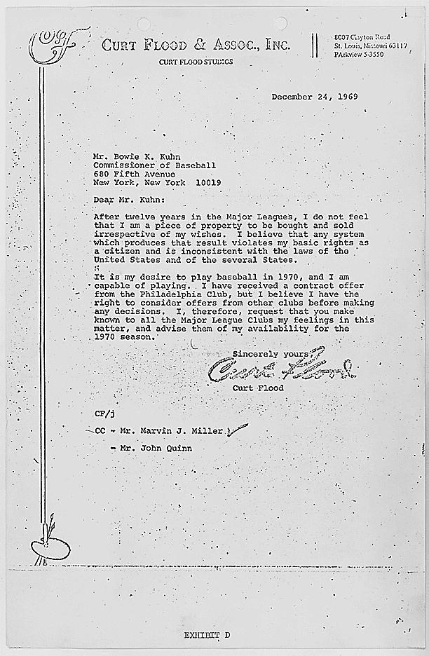 Curt Flood's letter to MLB Commissioner Bowie Kuhn, stating that he is not "a piece of property to be bought and sold irrespective of my wishes." Flood also states his intention to play baseball in 1970.